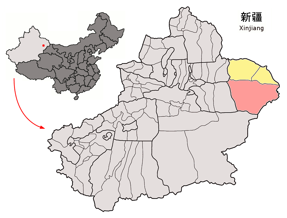 Location of Hami City (pink) and Hami Prefecture (yellow) within Xinjiang autonomous region of China. Map drawn in september 2007 using various sources, mainly : Xinjiang Uygur autonomous region administrative regions GIS data: 1:1M, County level, 1990 Xinjiang Counties map from